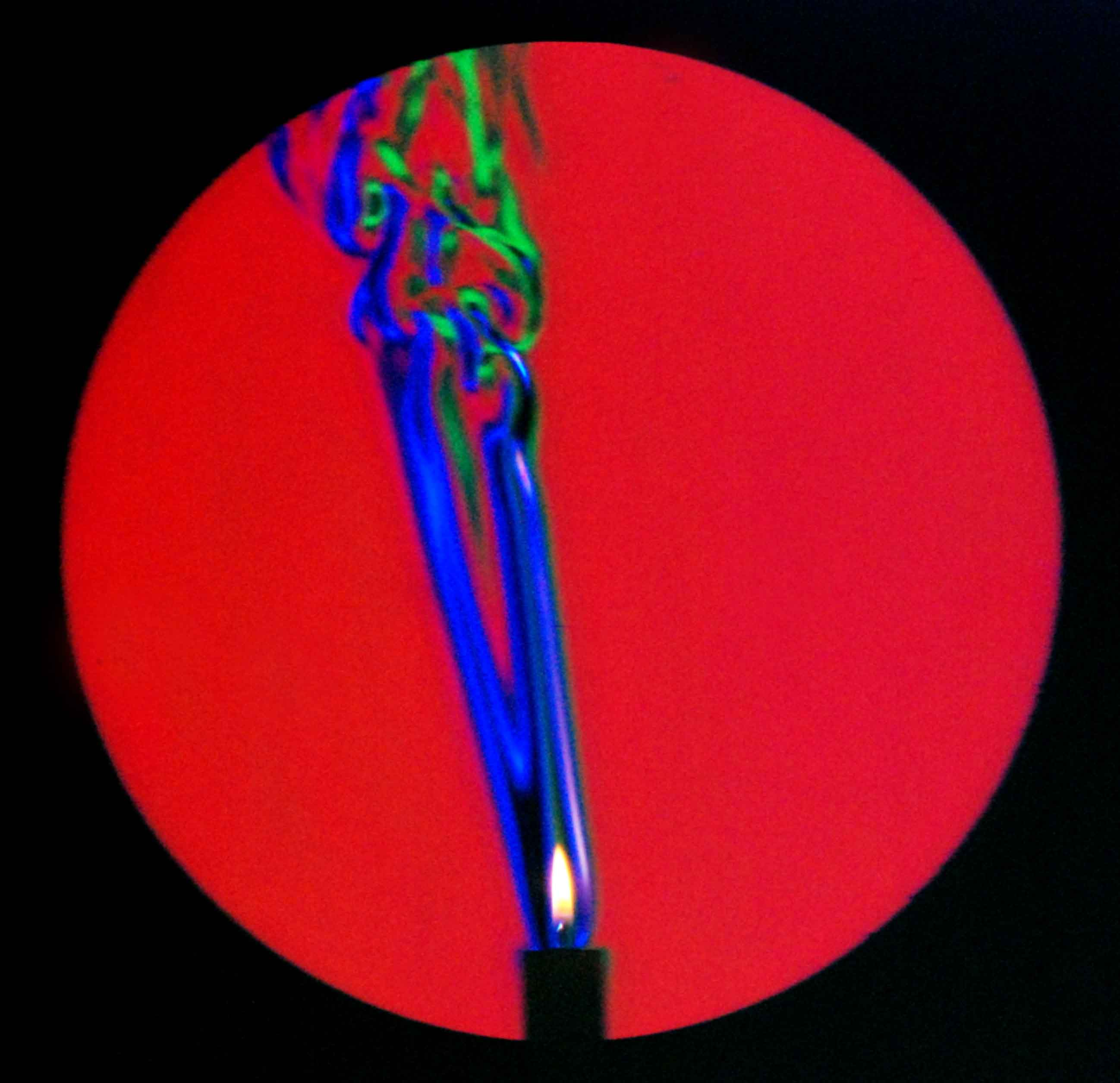 Color schlieren image of the thermal plume from a burning candle disturbed by a breeze from the right. This image was produced using a commercial schlieren instrument manufactured by Floviz Inc.